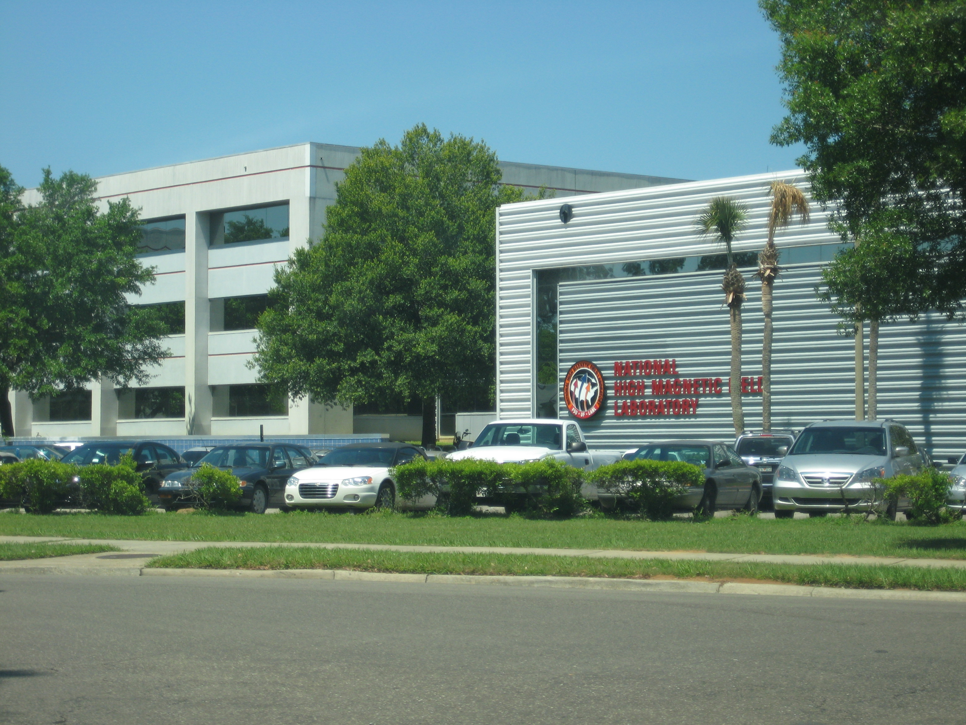 Southwest Campus of Florida State University: National High Magnetic Field Laboratory